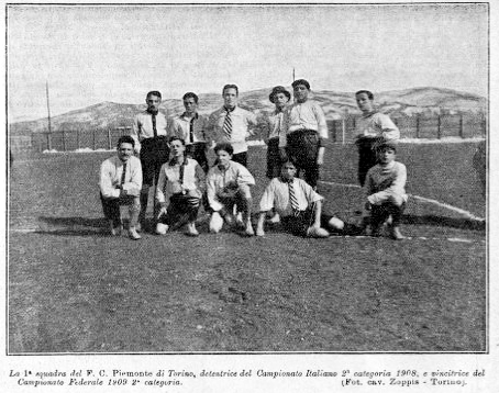 Piemonte FC, 1909 Seconda Categoria (Campionato Federale) winner.